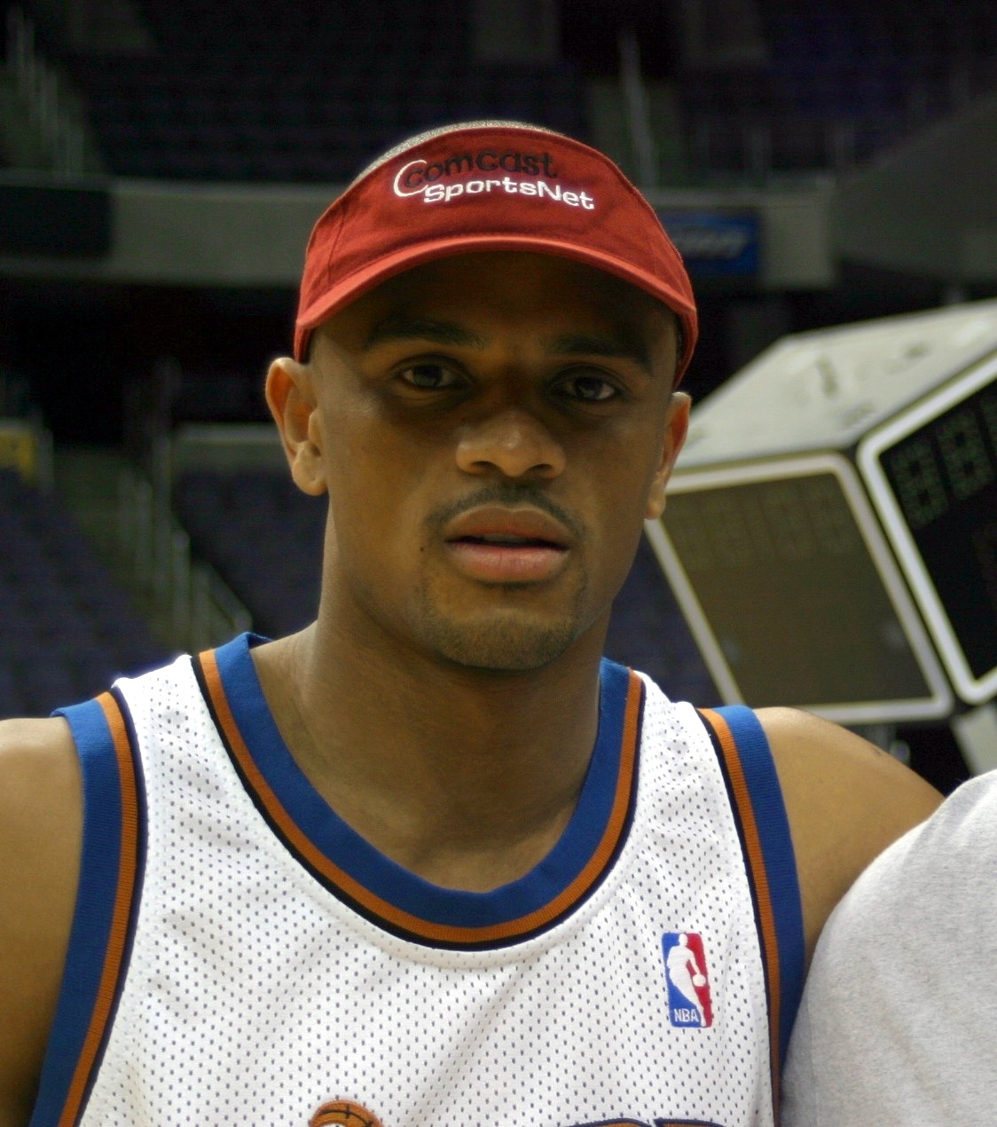 NBA player Juan Dixon during a taping for a NBA "Read to Achieve" PSA.